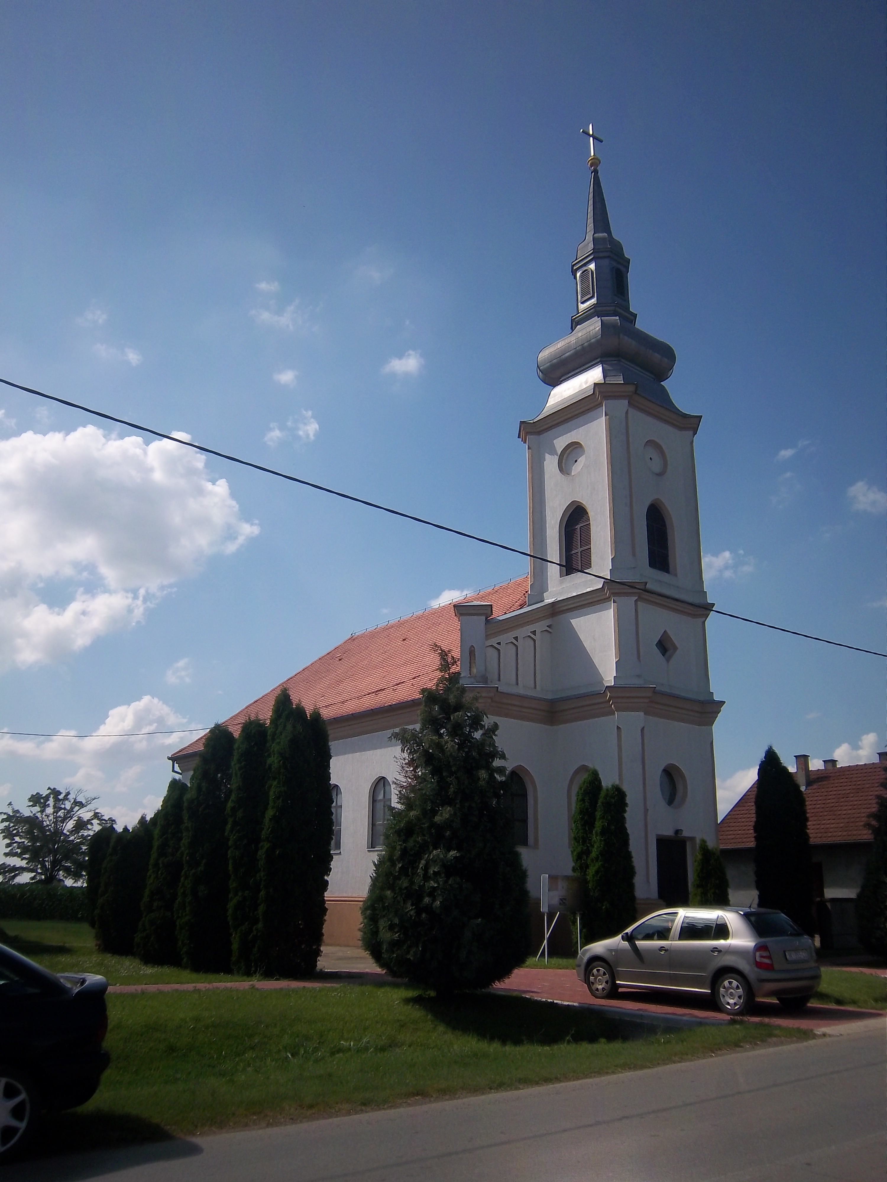 Tordinci, Croatia Srpskohrvatski / српскохрватски: protestantska reformistička (kalvinistička) crkva, Tordinci, Hrvatska